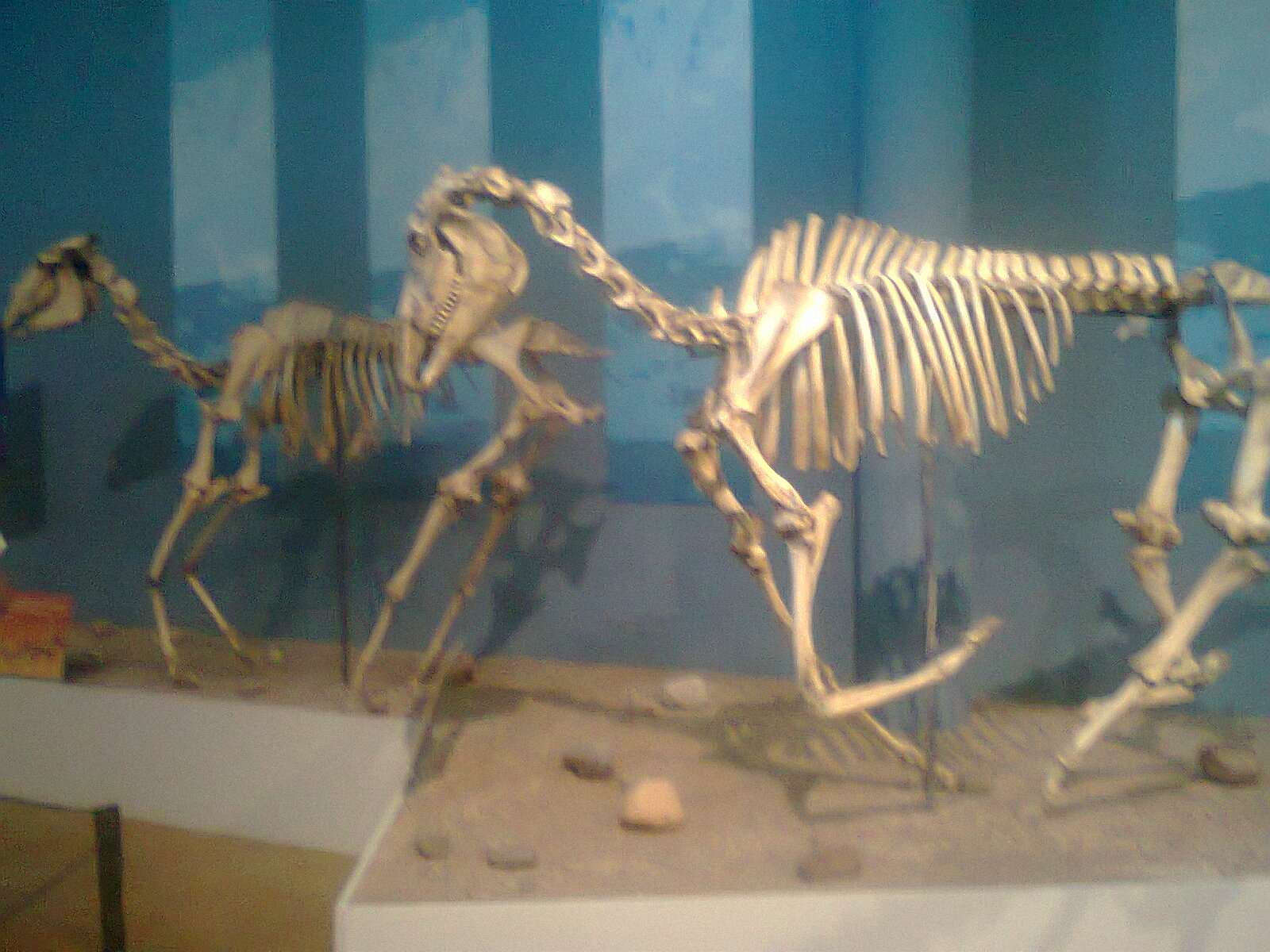 Fossil remains of Equus conversidens in the Museo del Desierto de Delicias